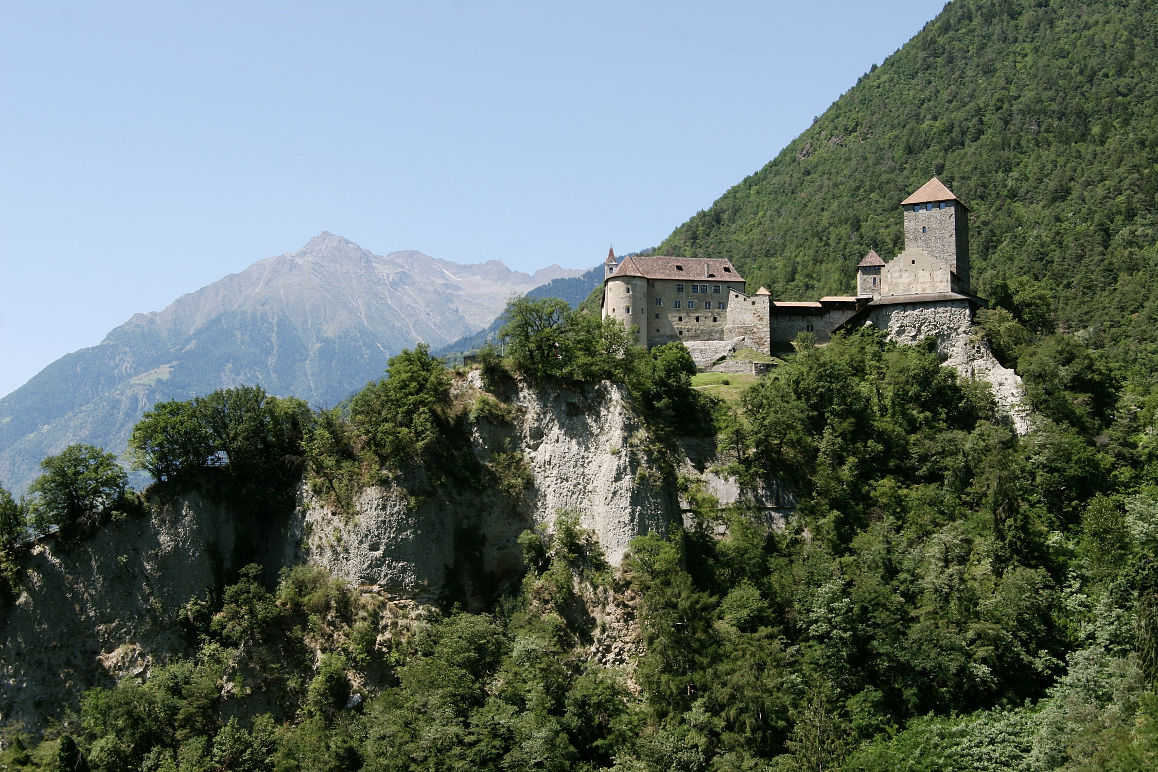 Outside view of Tirol Castle near Meran in South Tyrol